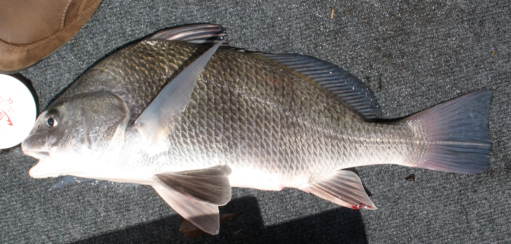 Pogonias Cromis - Black Drum caught on Lake Pontchartrain